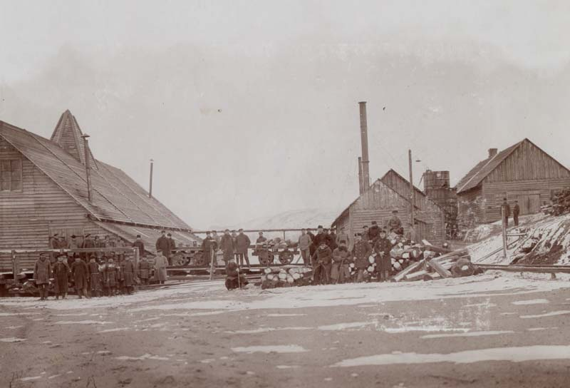 Construction works on a railway bridge across the Neman River close to Olita. The bridge was designed as part of the Transneman Railroad by Nikolai Belelyubsky and built by the K. Rudzki i S-ka company between 1898 and 1899. Blown up by the Russians in 1915, it has not been rebuilt since.